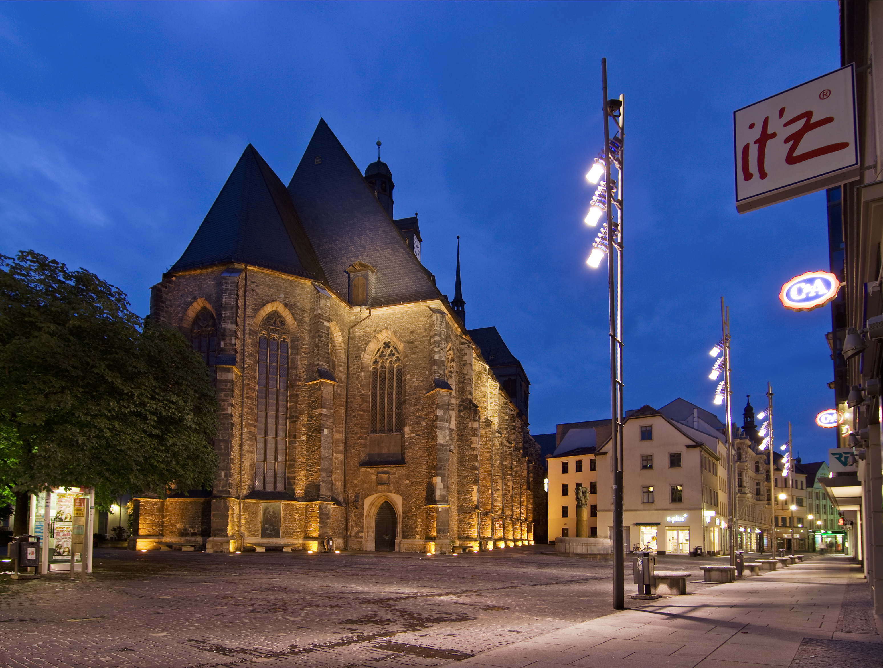 Concert Hall St Ulrich-Kirche in Halle (Saale), Saxony Anhalt